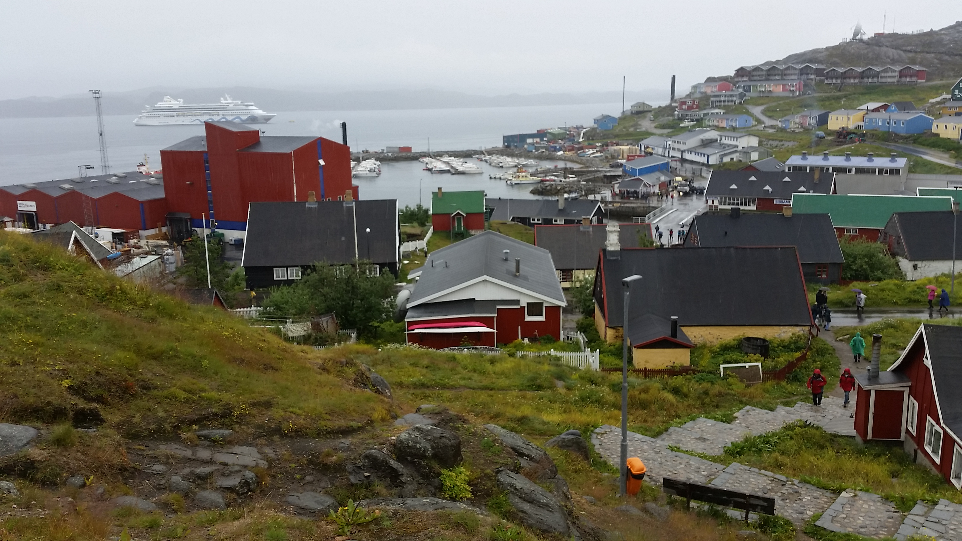 Qaqortoq with the AIDAaura.